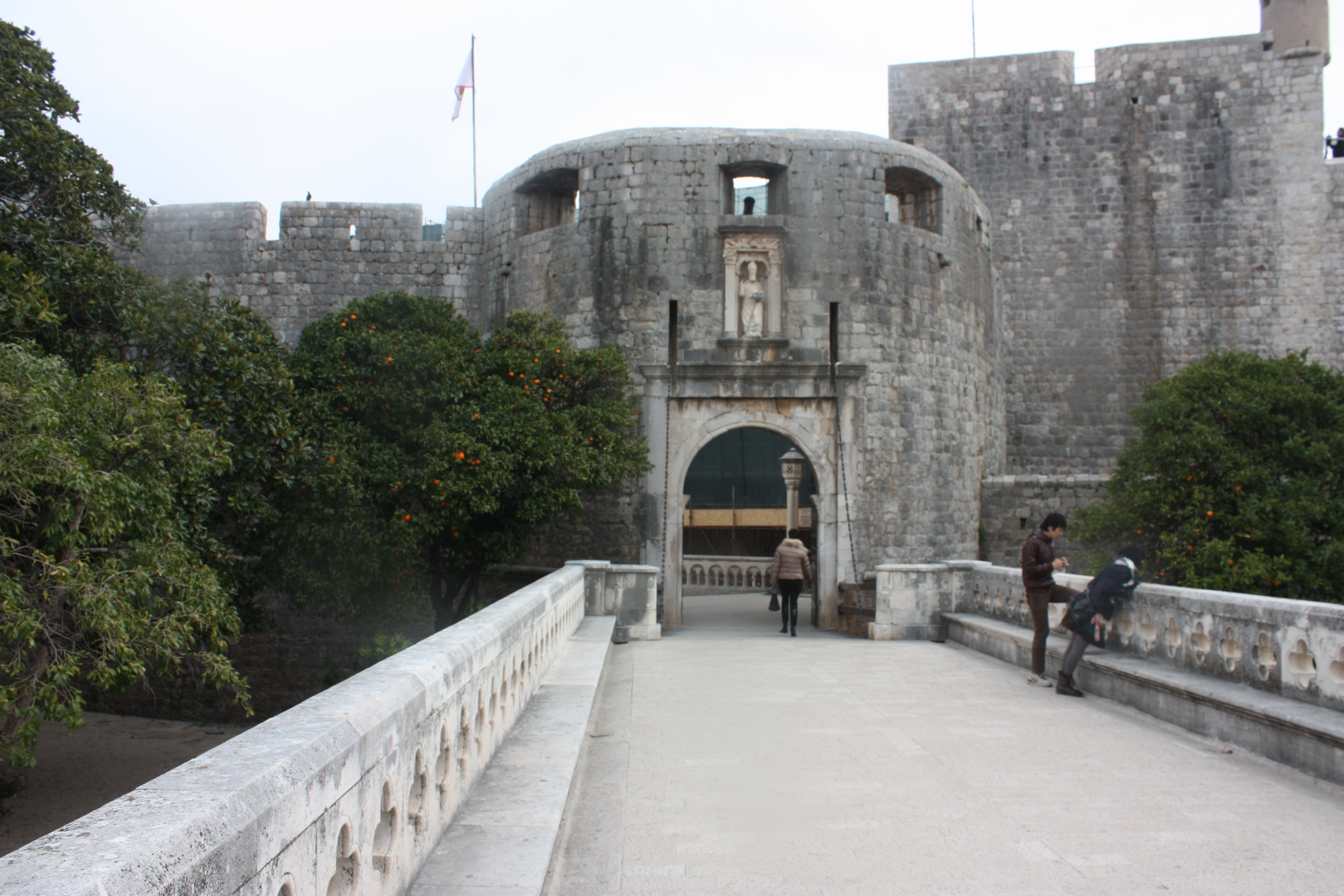 Pile Gate - Dubrovnik